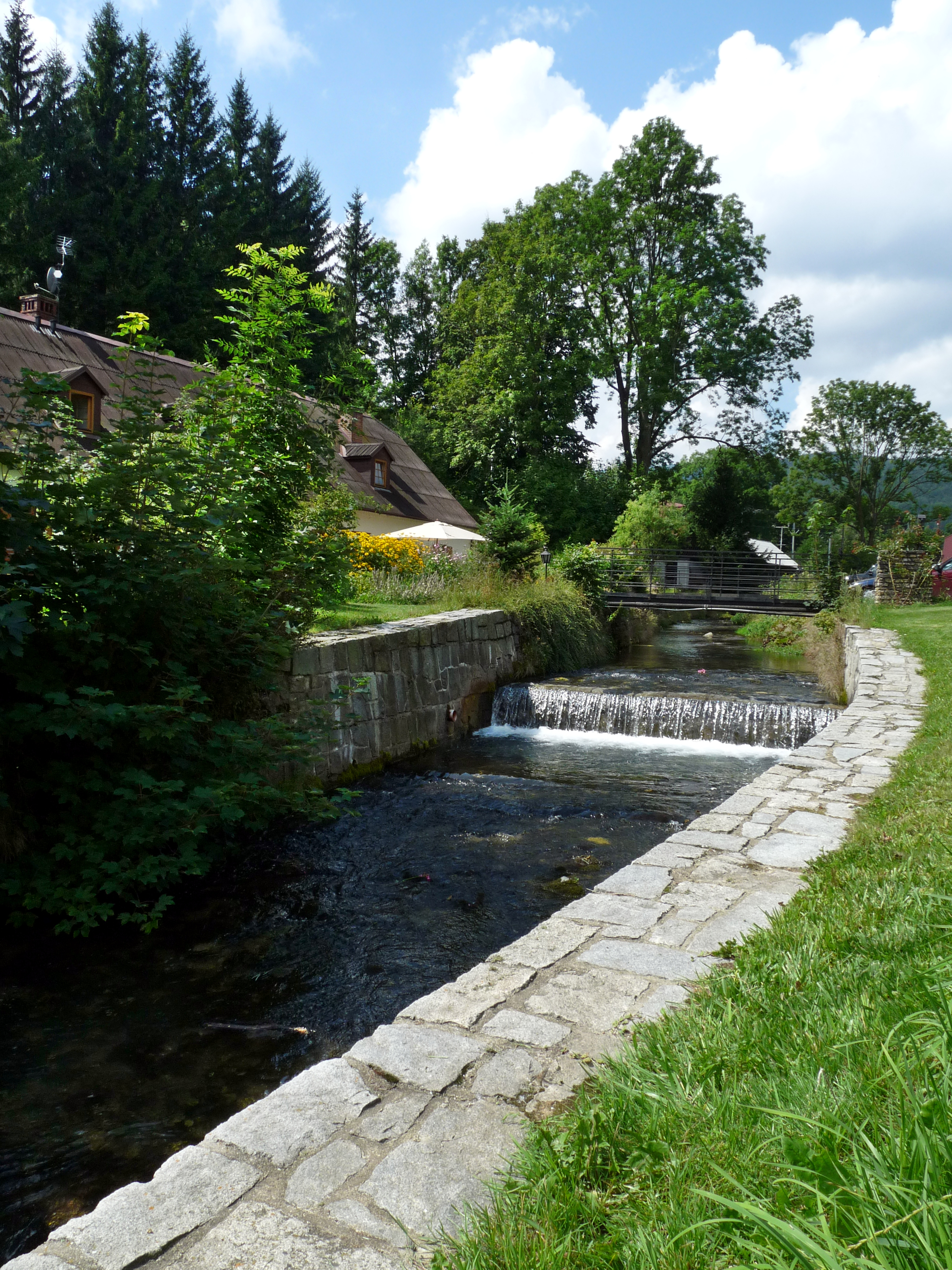 Staříč Stream in the village of Lipová-lázně, Jeseník District, Olomouc Region, Czech Republic.